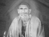 Snap of bhuriwale maharaj